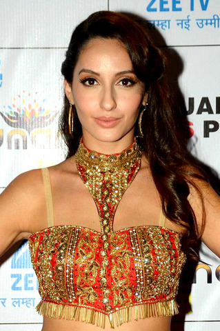 Nora Fatehi graces the red carpet for Umang police show, Jan 22, 2017